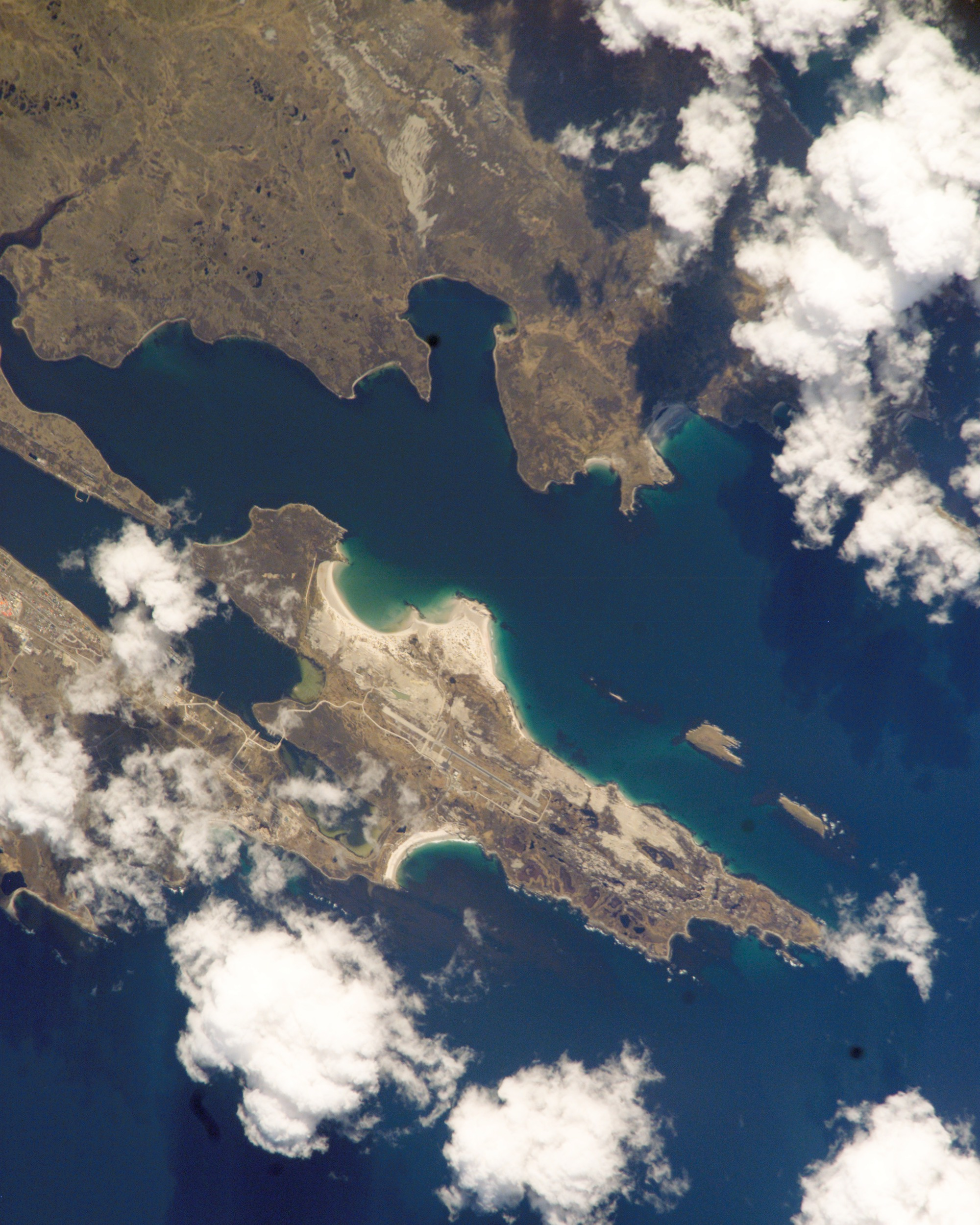 Satellite image of Port William, Stanley Harbour and Stanley Airport in the Falkland Islands